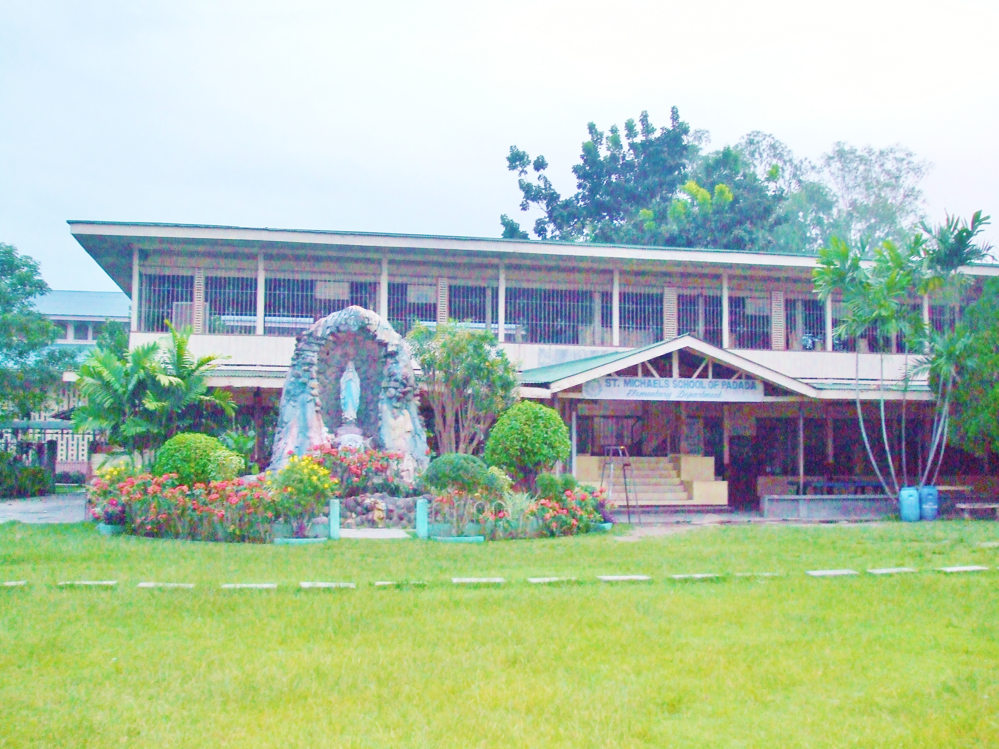 St. Michael's School of Padada, Old Building